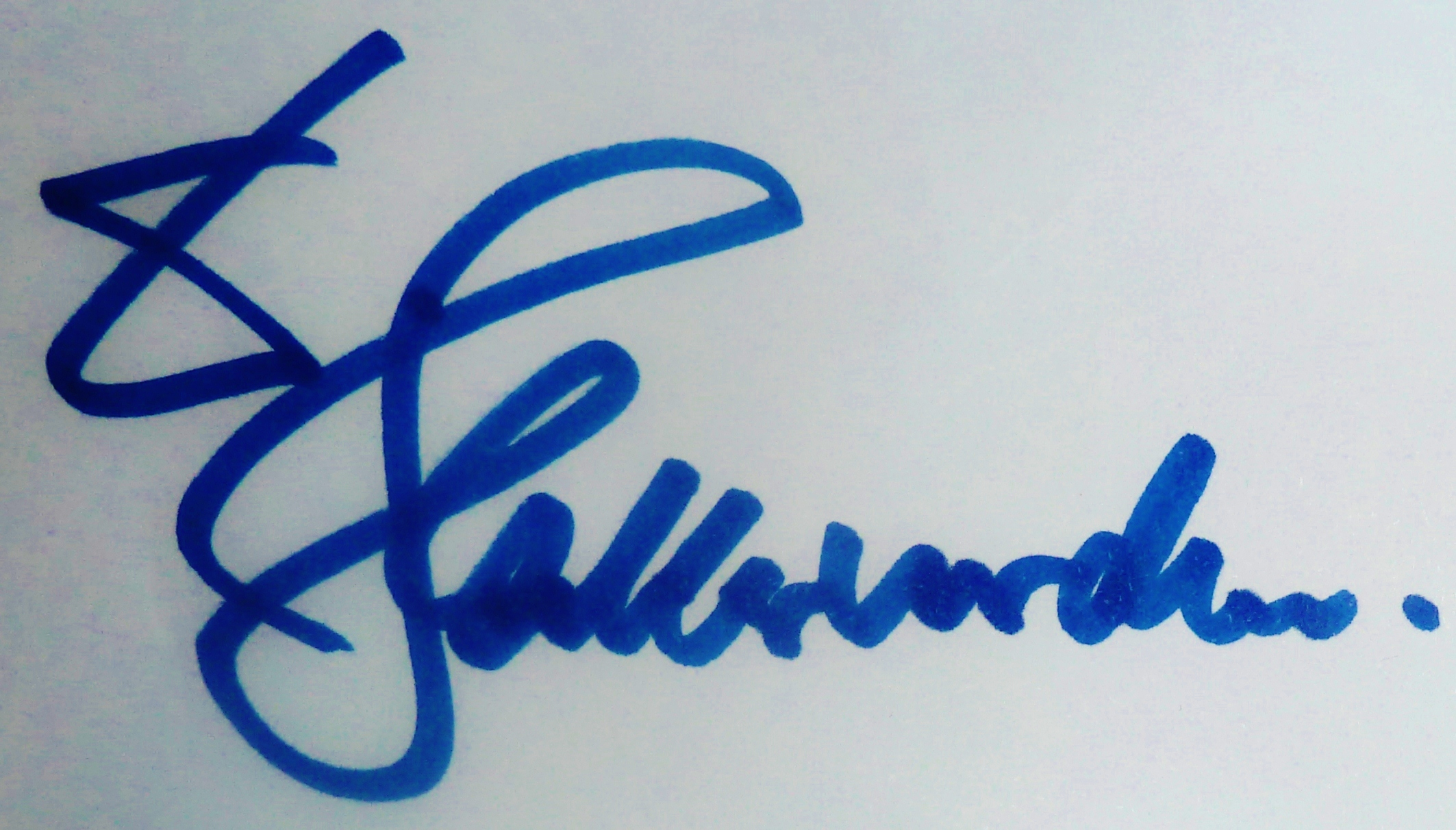 Autograph by Dieter Hallervorden